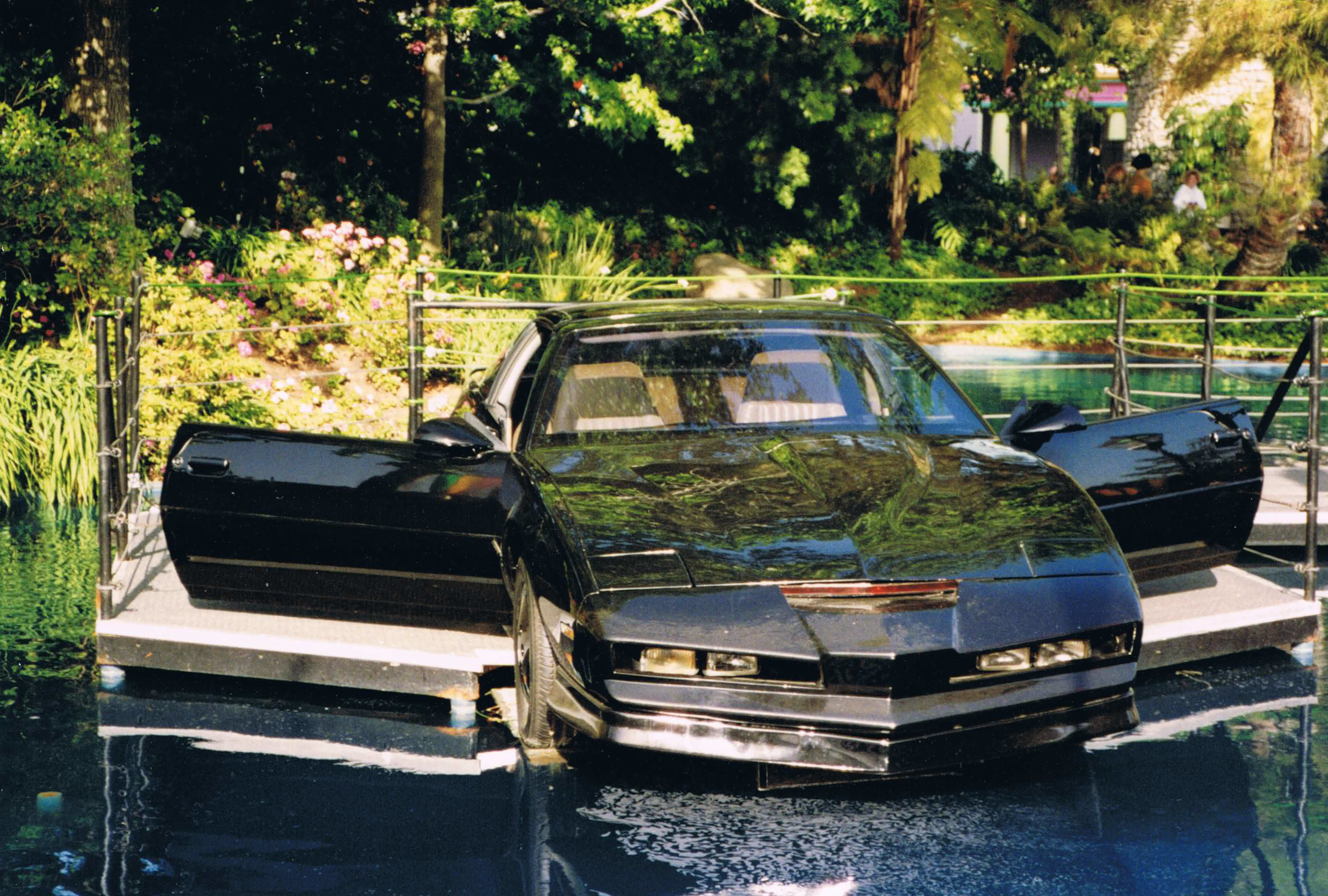 KITT at the Universal Studios Theme Park in 1993. As discussed in this video from the Jay Leno's Garage web series, the car was originally built as a stunt car for the show, with a solid roof and based on a 1984 Firebird, and without the K.I.T.T. dashboard. After the show ended, a dashboard that had been used on the insert stage when filming the show was put into the car and it was equipped with speakers and microphones for the Universal Studios exhibit (where you could sit in the car and "speak" to it). As of 2018, the car is owned by Joe Huth. File:KITT Universal Studios.jpg is a cropped, color-enhanced version of this photo.